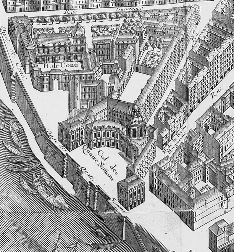 The Collège des Quatre-Nations on the Turgot map of Paris